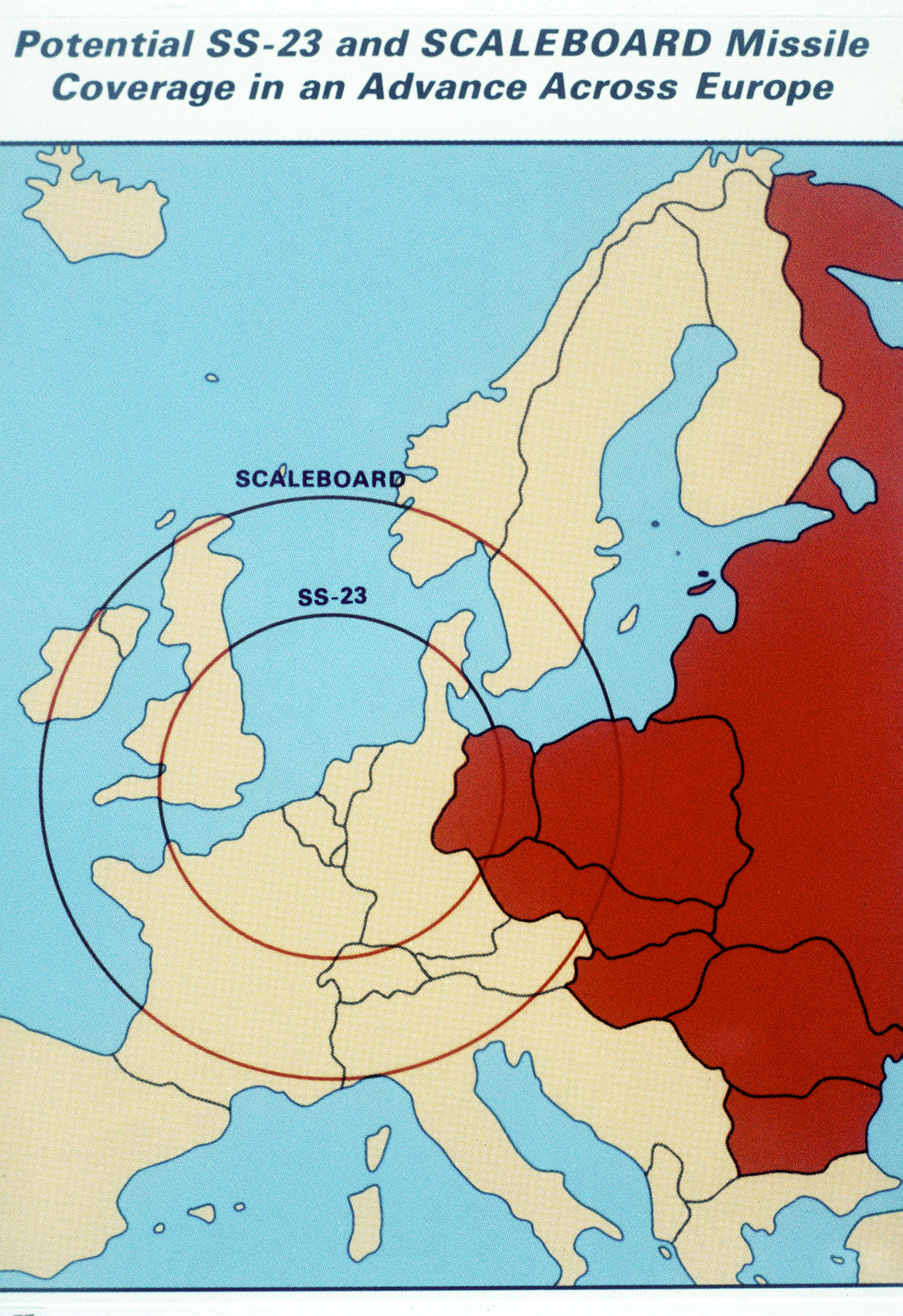 Potential SS-23 and Scaleboard missile coverage in a Soviet advance across Europe